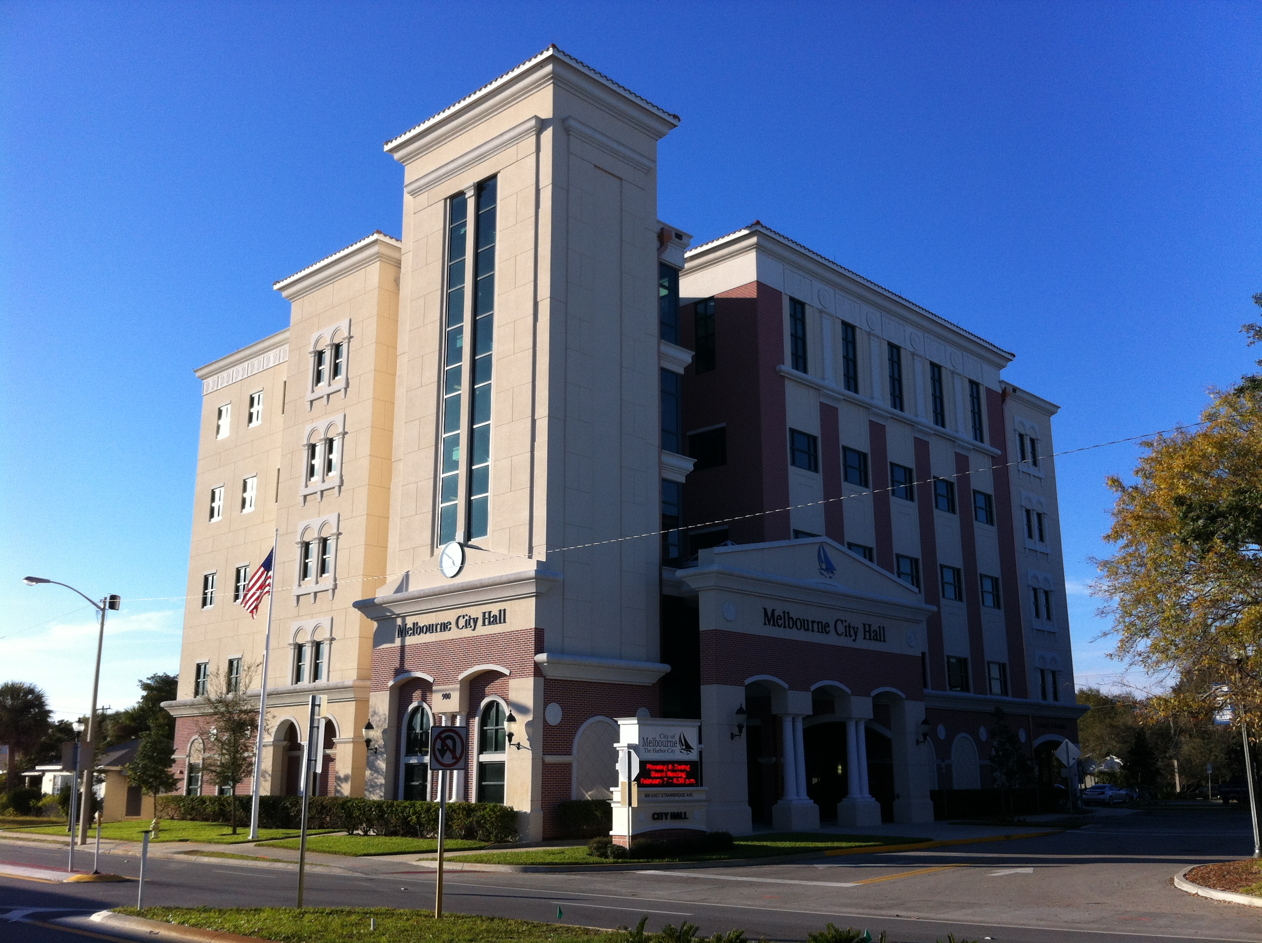 Melbourne City Hall, 900 East Strawbridge Avenue, Melbourne, Florida.